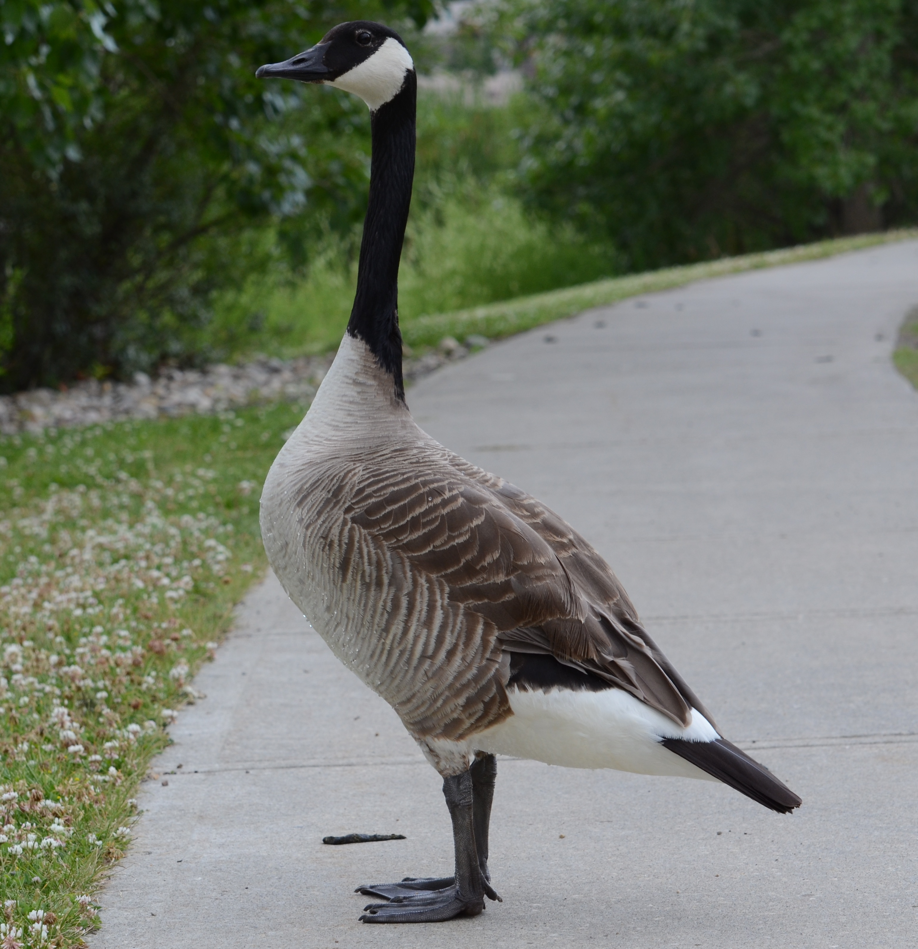 Canada goose in Edmonton, Alberta in 2013.